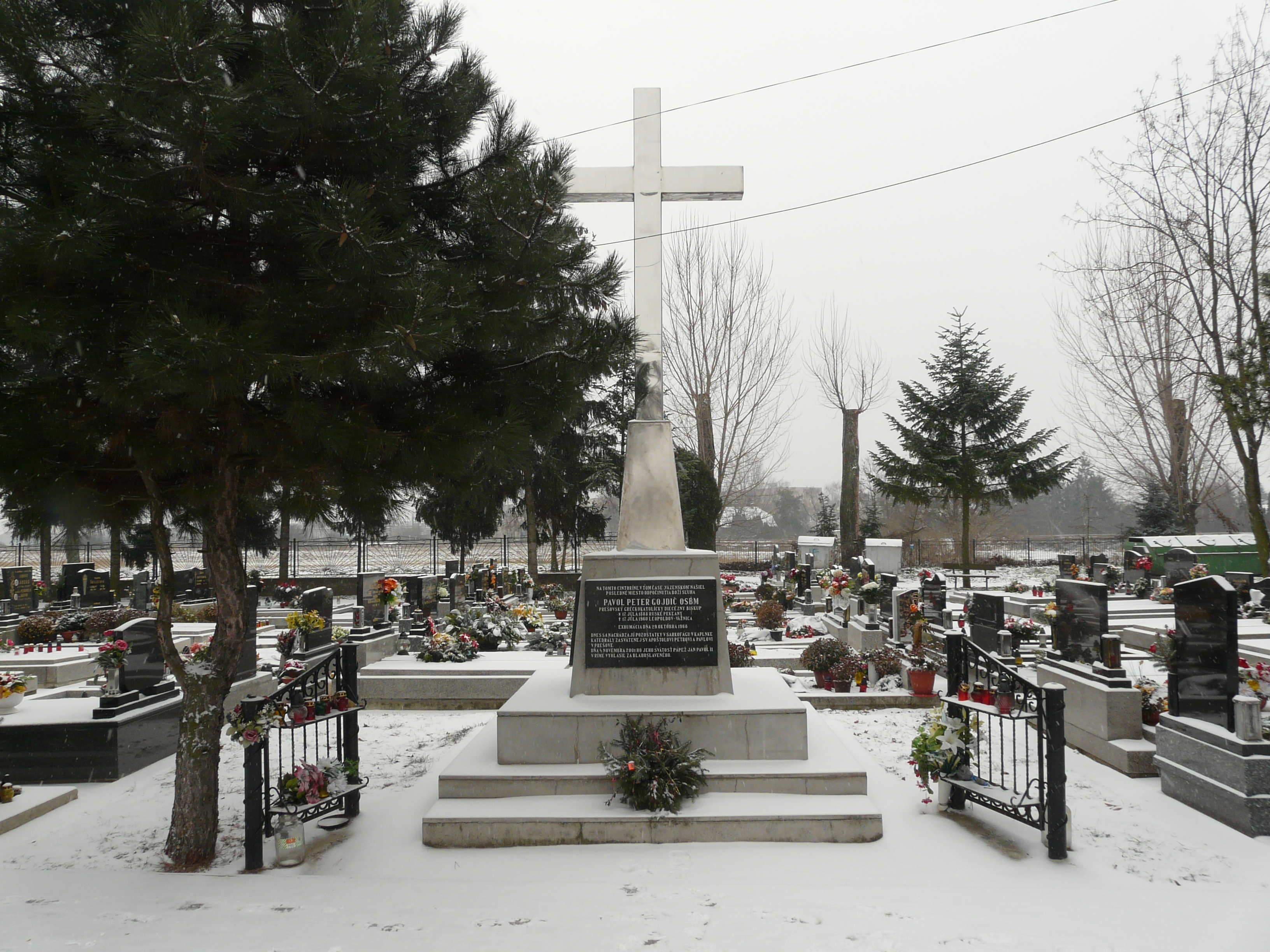 A memory to Peter Pavol Gojdich and Metod Dominik Trchka.